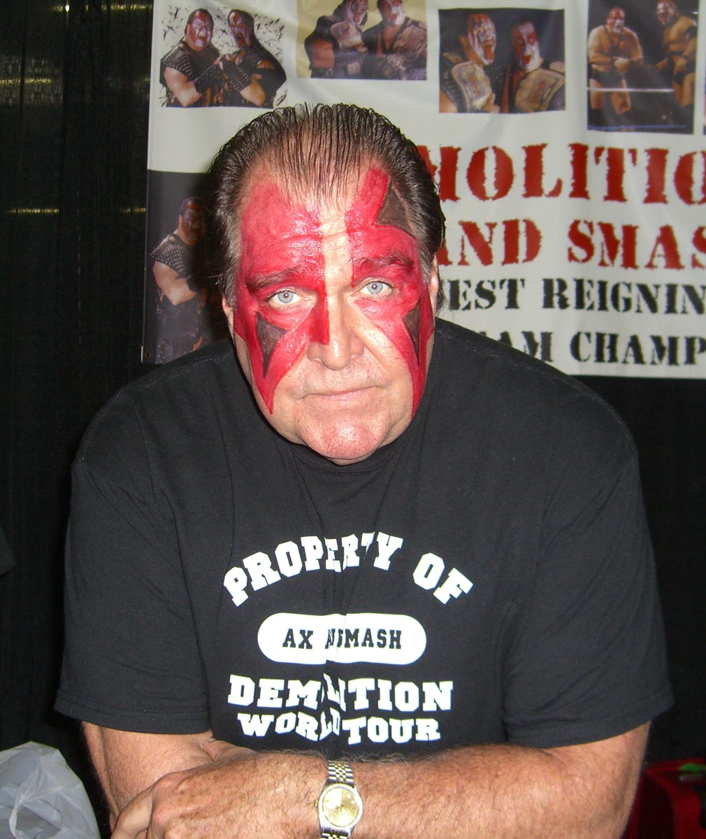 Professional wrestler Bill Eadie (aka Ax) at the Big Apple Convention in Manhattan. This photo was created by Luigi Novi. It is not in the public domain, and use of this file outside of the licensing terms is a copyright violation.